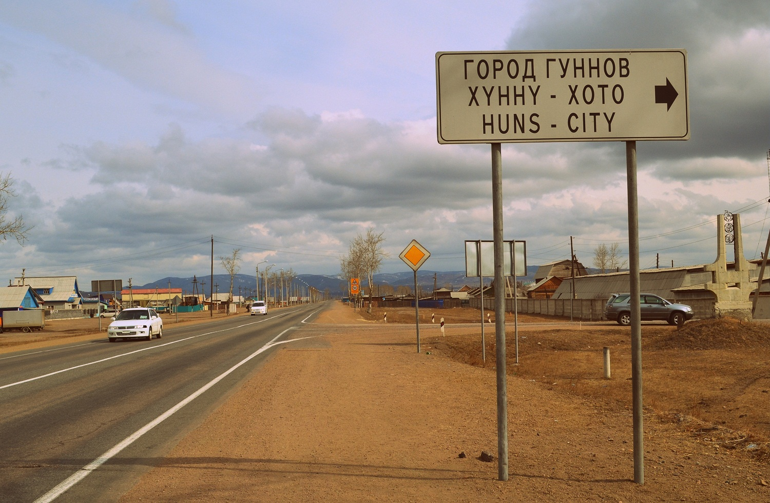 Иволгинское городище. Бурятия, Улан-Удэ